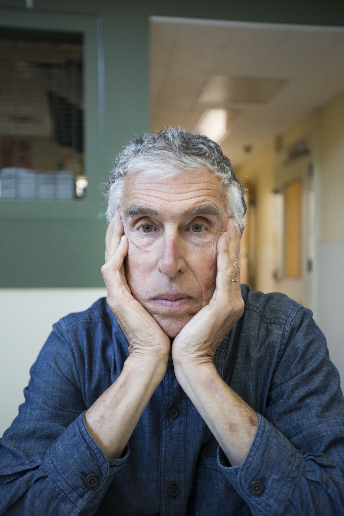 Richard Ross in Oregon. 2017.